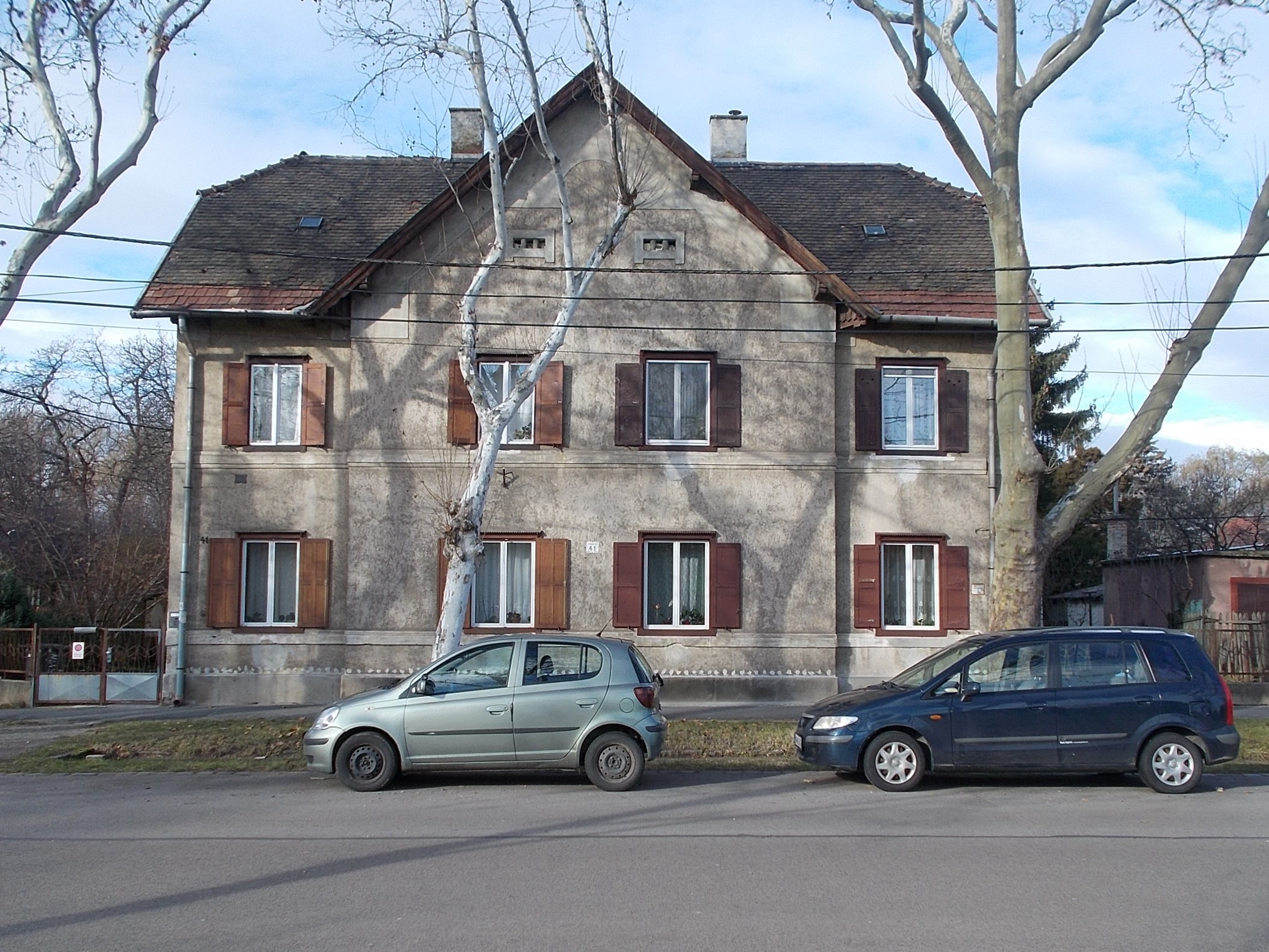 One storey worker's house (1910) - 41 Corvin körút, Wekerletelep, 19th district of Budapest.